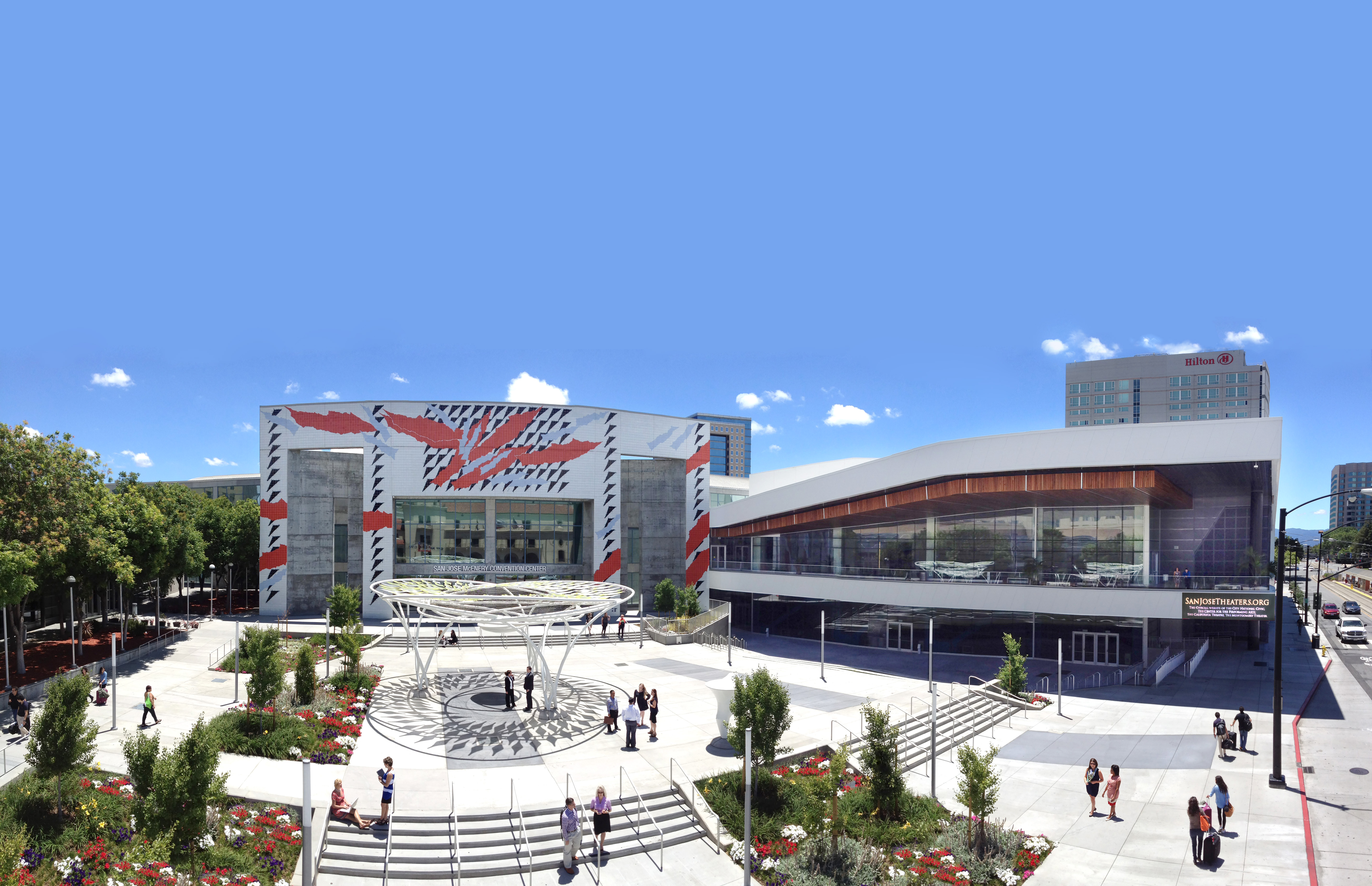 San Jose Photos 067 McEnery Center